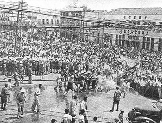 This picture was taken at 1946, the copyright has expired